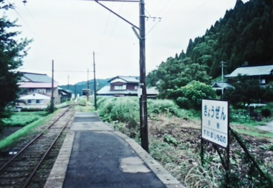 Keifuku Kyozen Station 2001 August